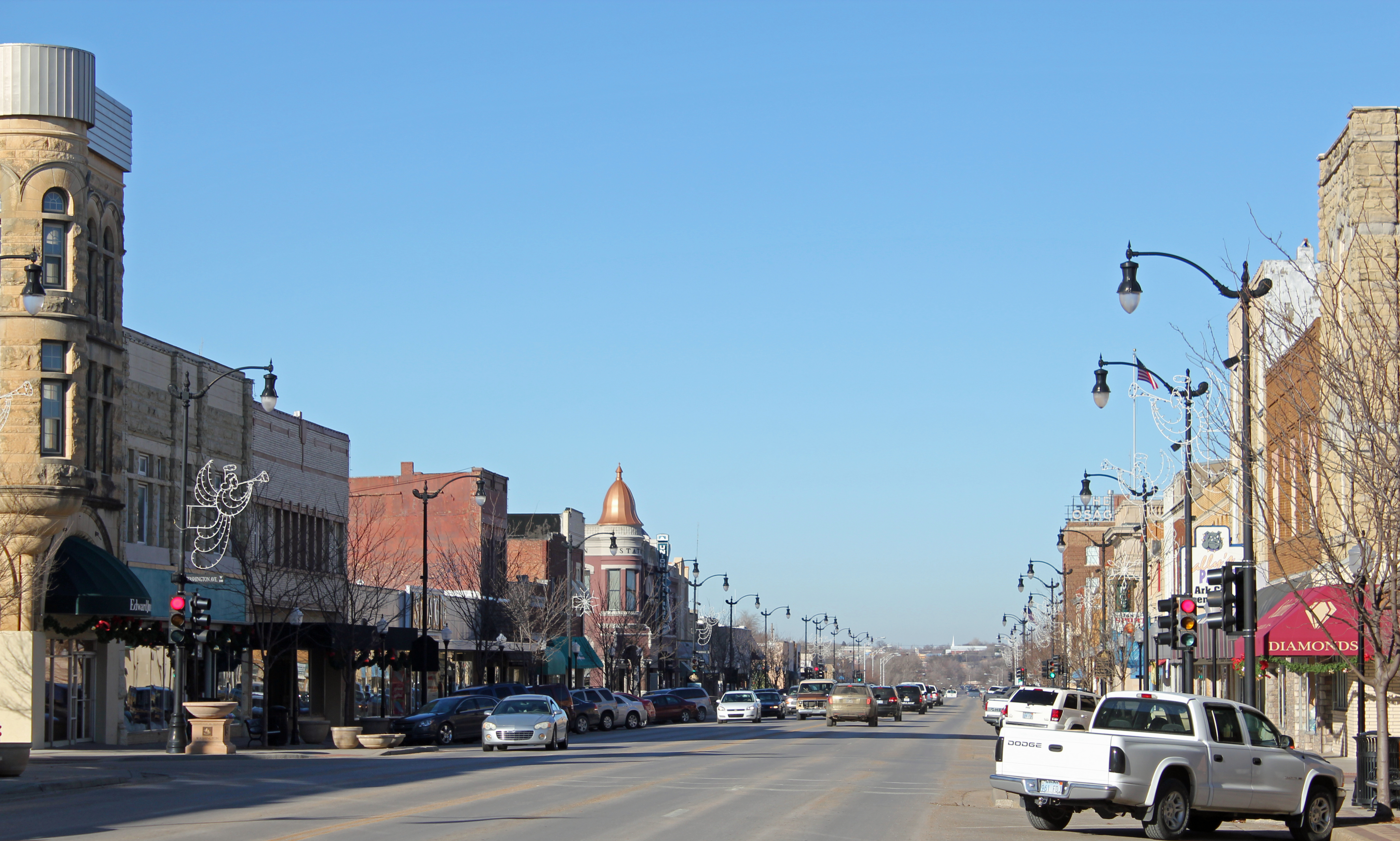 The Arkansas City Commercial Historic District, located in Arkansas City, Kansas. The district is listed on the National Register of Historic Places. The view is to the north, looking up Summit Avenue, from just south of where Washington Street crosses Summit.